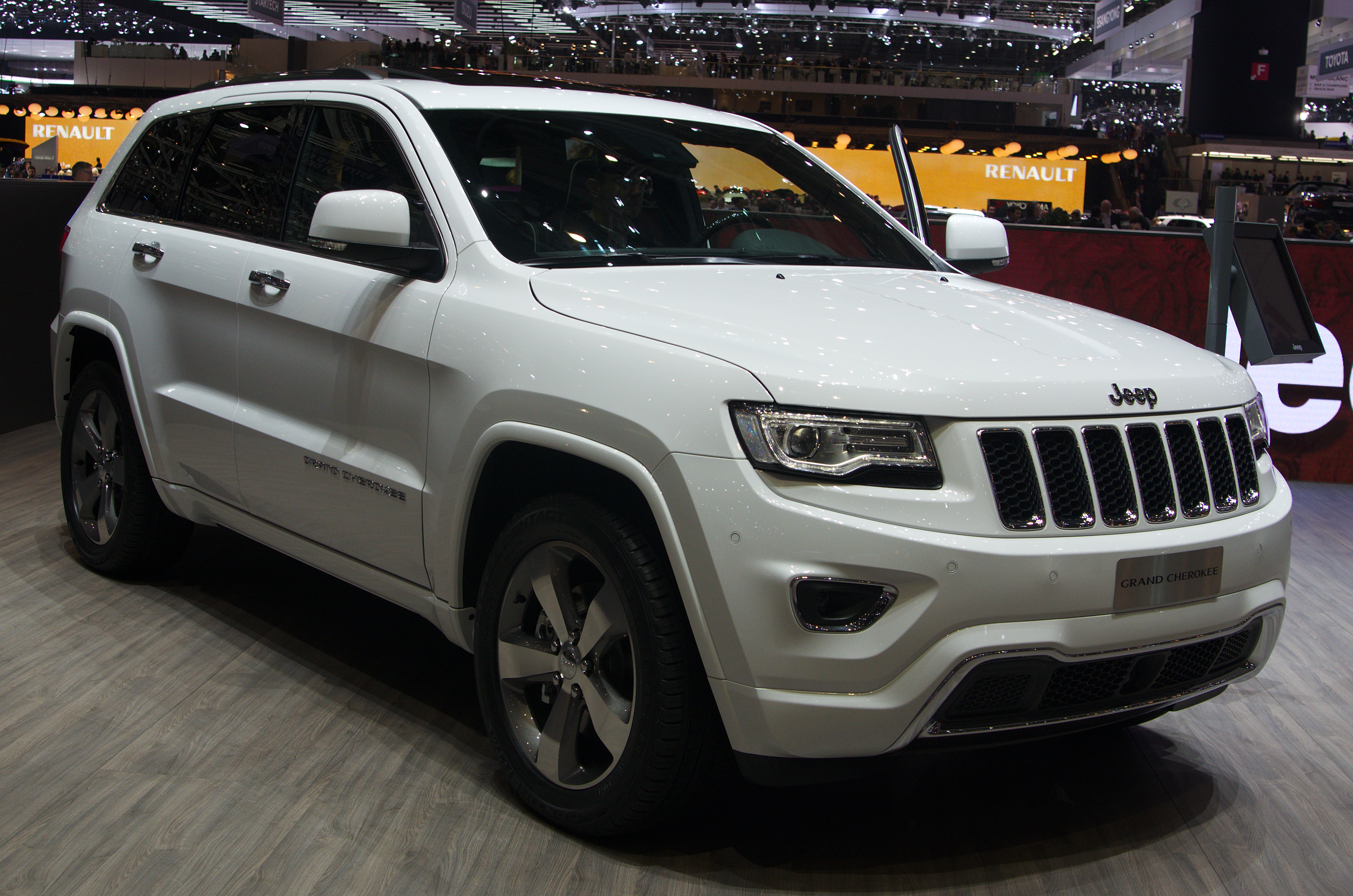 Geneva MotorShow 2013 - Jeep Grand Cherokee